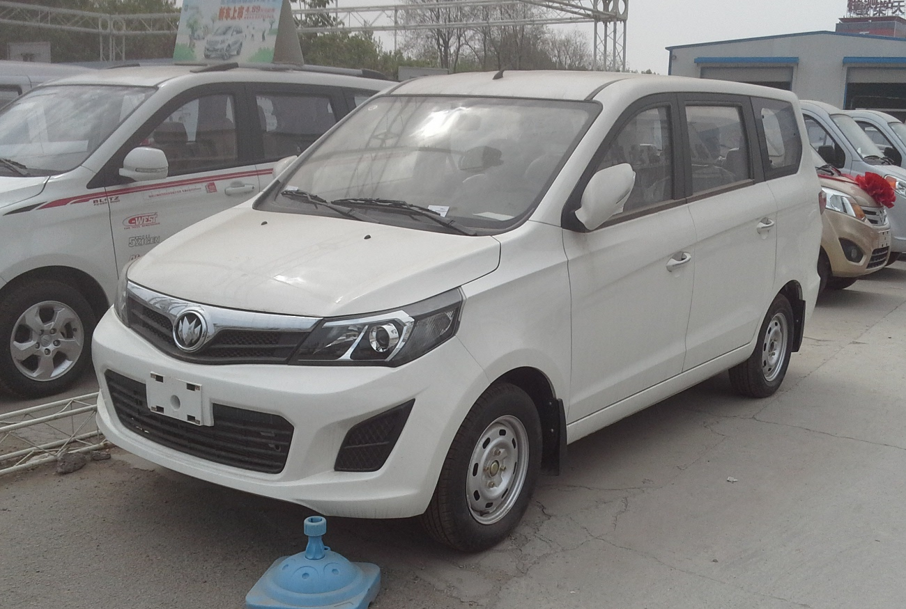 Qiteng EX80 photographed in Zhengzhou, Henan province, China.